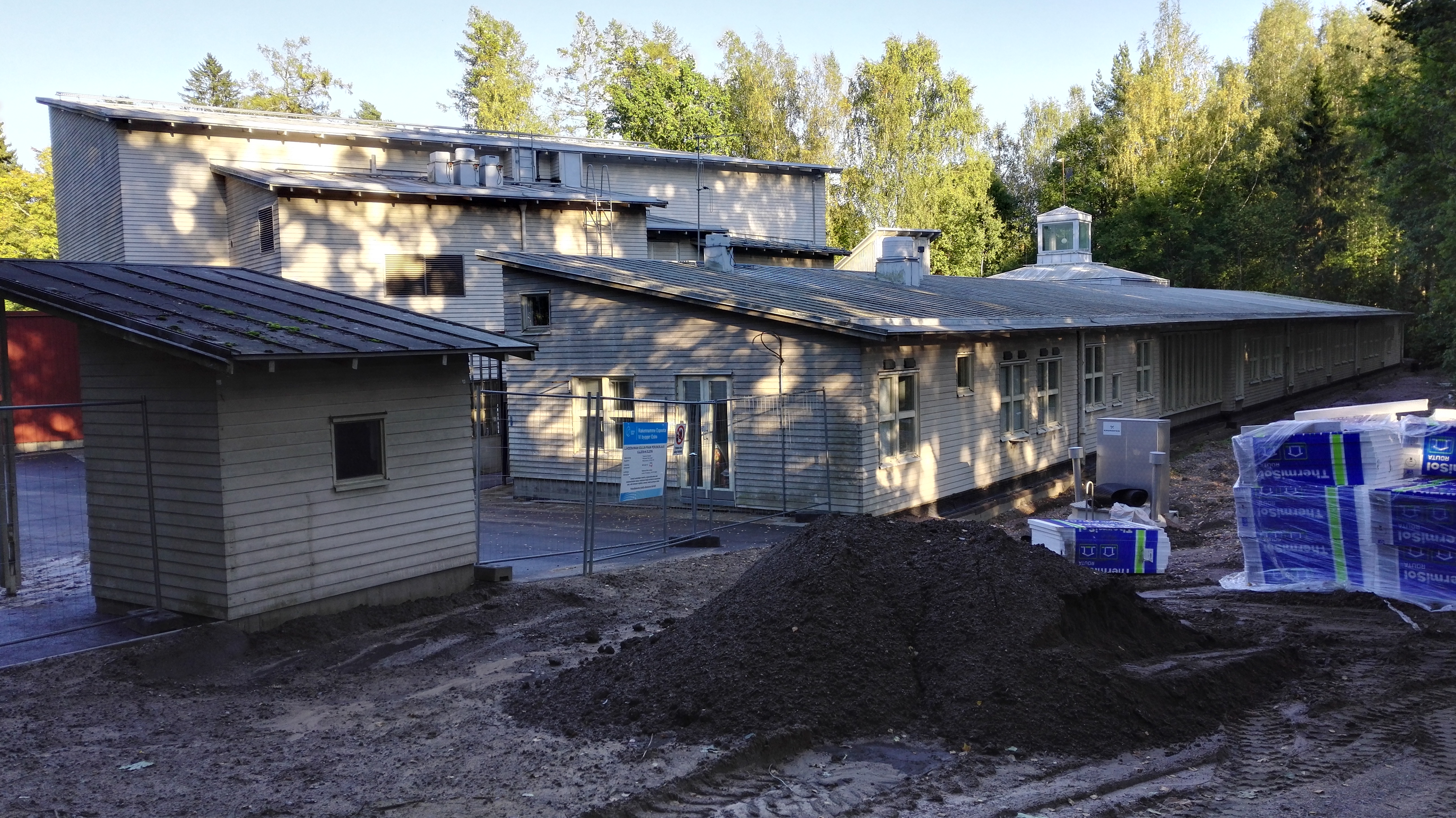 Lähderannan koulu is a school in Espoo.